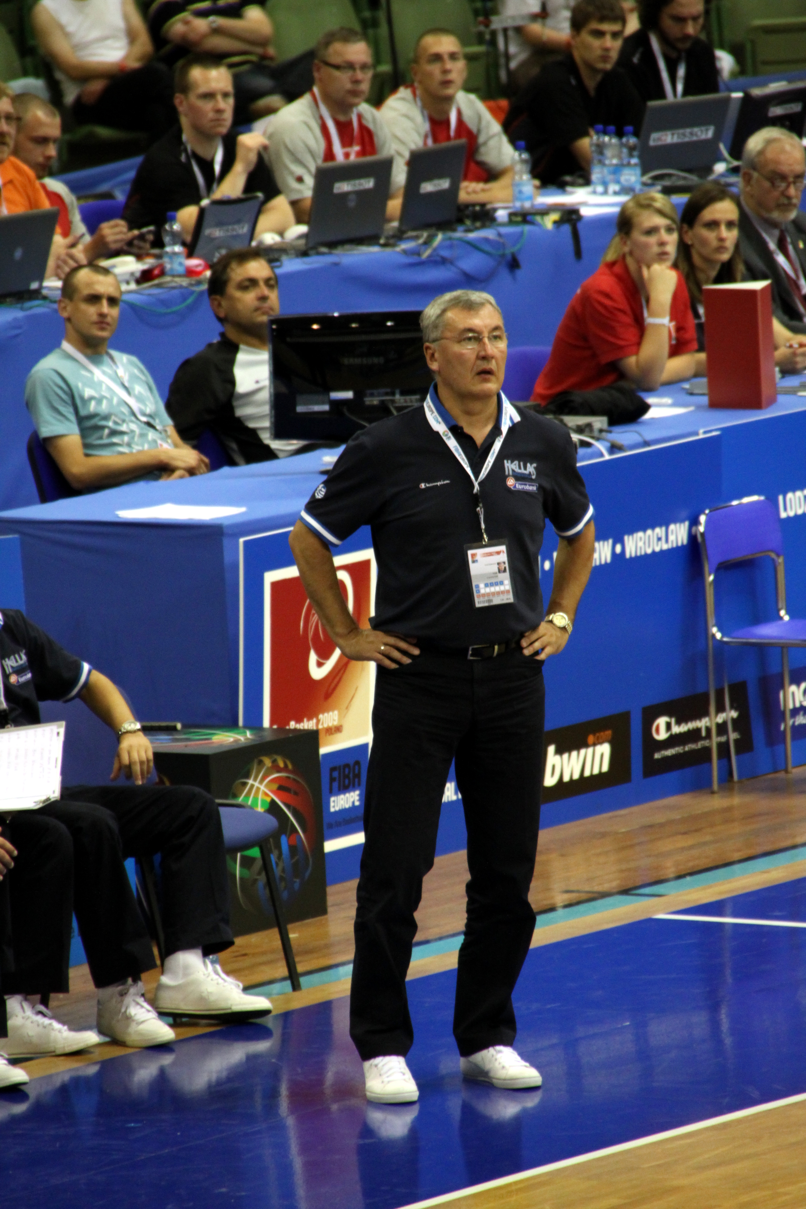 The coach of the Greek National basketball team, Jonas Kazlauskas, at the Eurobasket 2009 [Israel 80-106 Greece, Eurobasket 2009, Poland] Israel 80-106 Greece